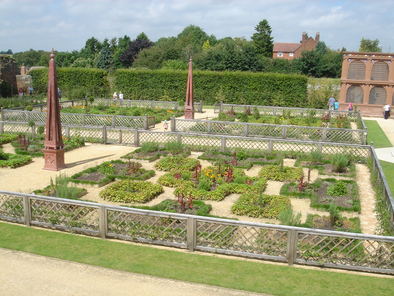 The restored Elizabethan gardens at Kenilworth Castle